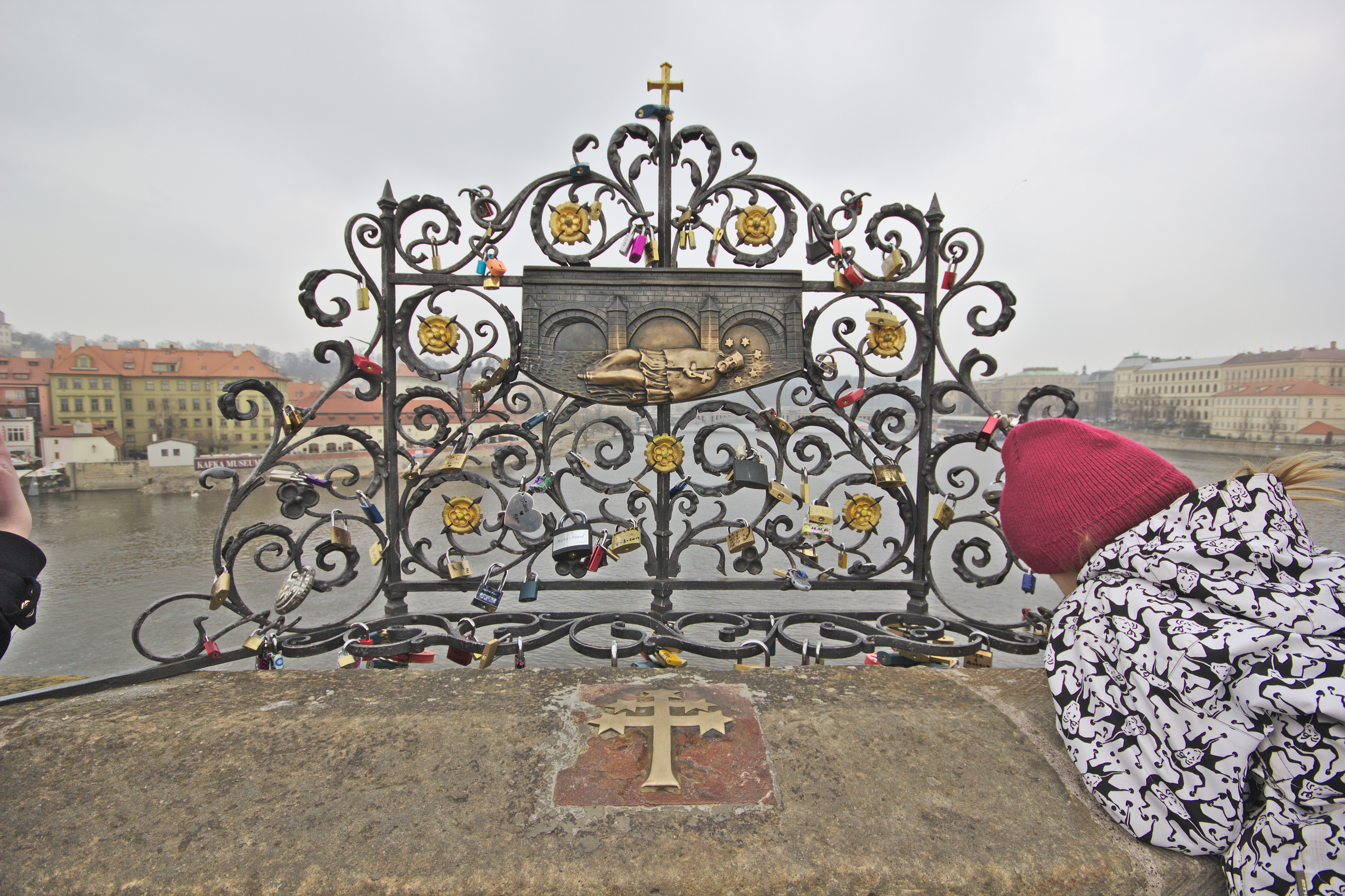 Cross of John of Nepomuk on Charles Bridge